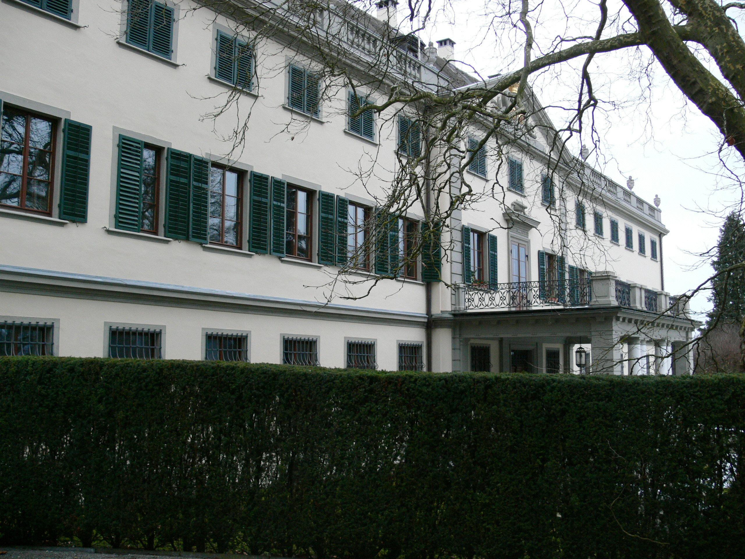 Königseggwald, Landkreis Ravensburg, Baden-Württemberg, Germany: Schloss Architect: Pierre-Michel d'Ixnard (1723–1795) DescriptionFrench-German architectDate of birth/death172321 August 1795Location of birth/deathNîmesStraßburgWork locationSouthern GermanyAuthority control : Q881112 VIAF: 13101918 ISNI: 0000 0000 6675 1481 ULAN: 500013116 LCCN: n85071737 GND: 118711040 WorldCat